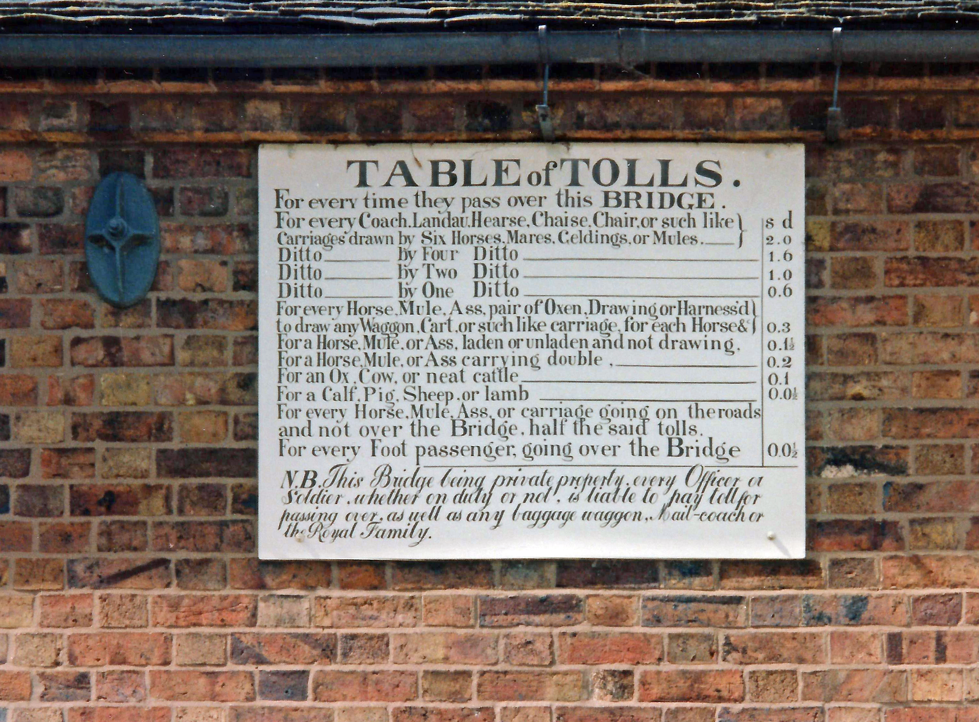 Table of Tolls at Ironbridge, Shropshire, England